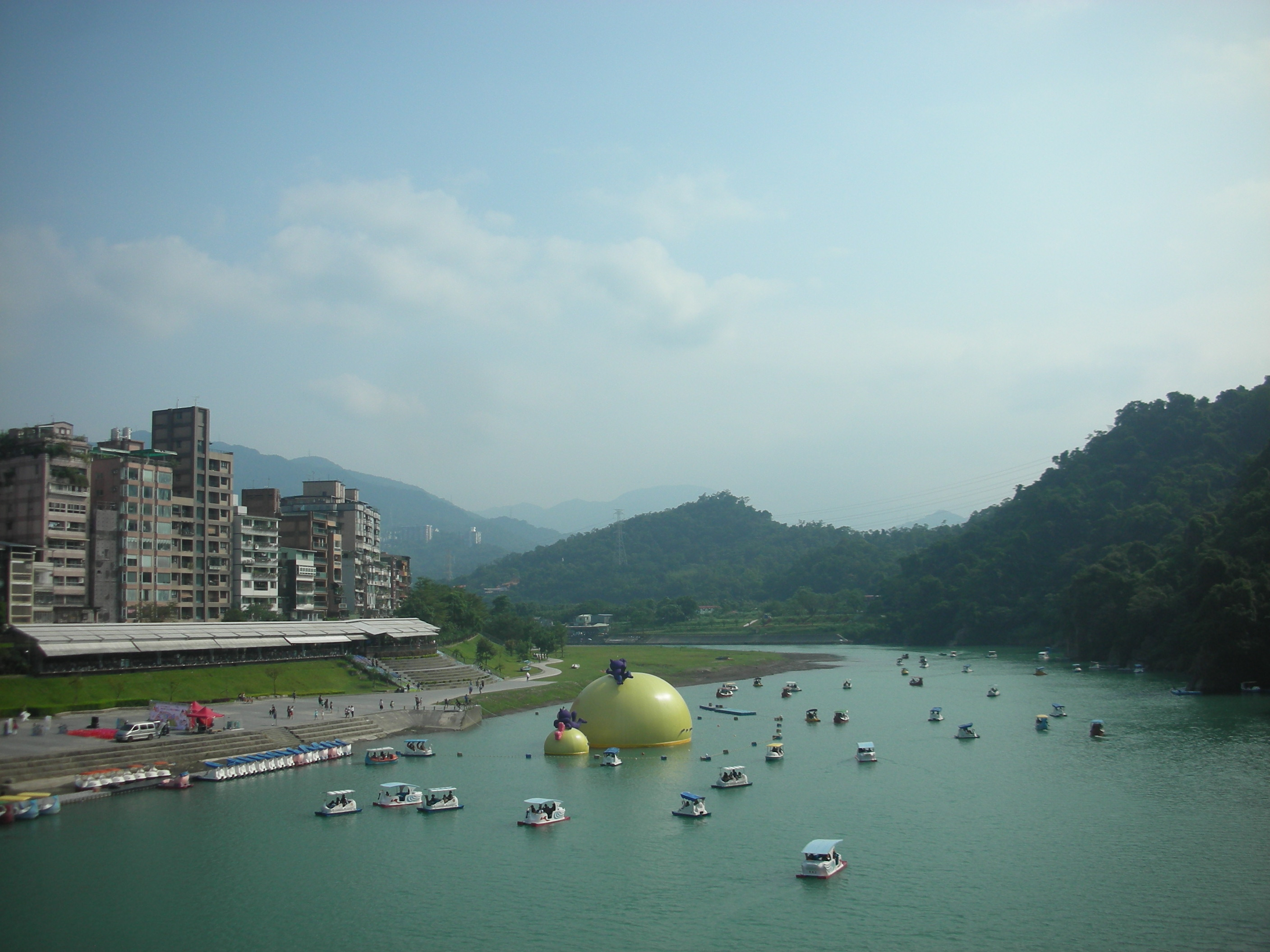 A 15-meter floating moon created by the team of famed graphic artist Jimmy appeared in New Taipei City's Bitan (碧潭) Scenic Area